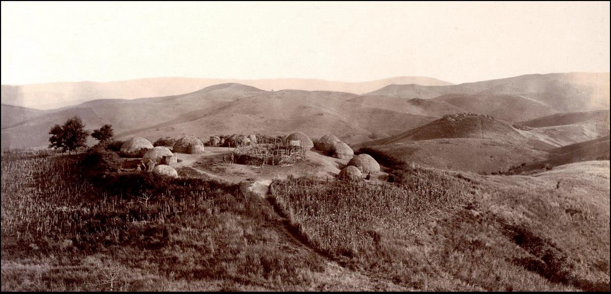 A zulu kraal in South Africa.